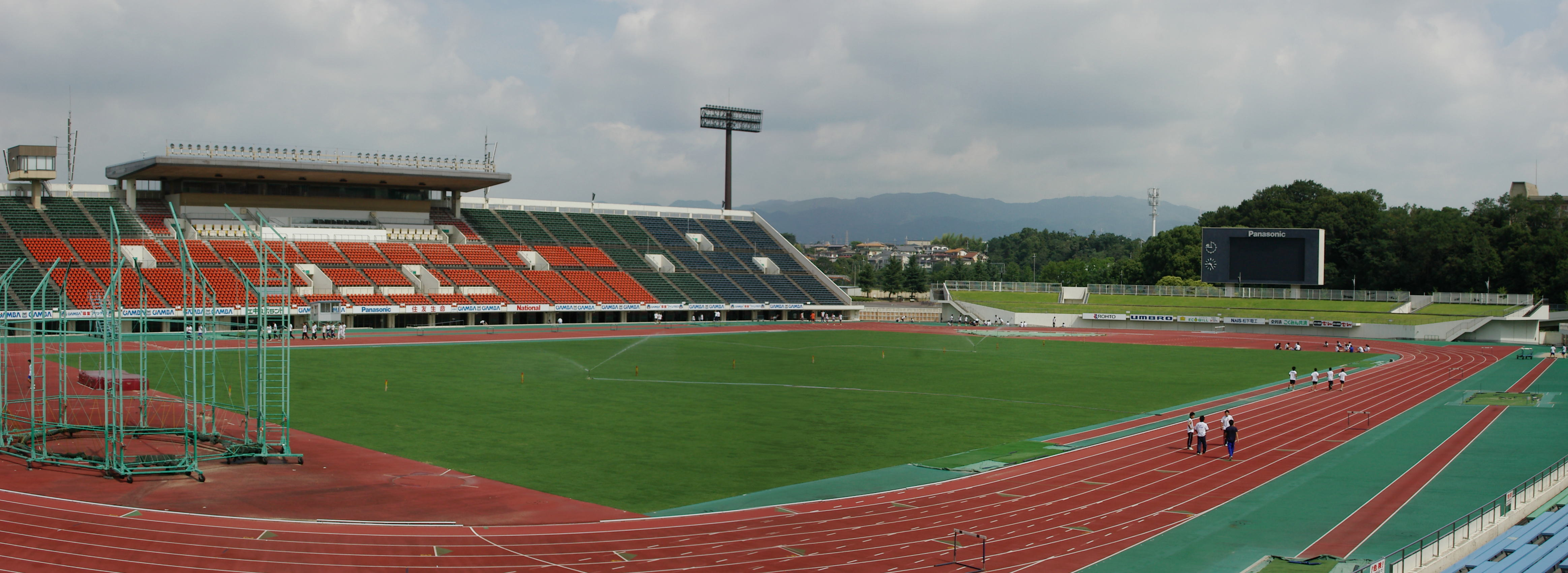 Expo70 Memorial Stadium